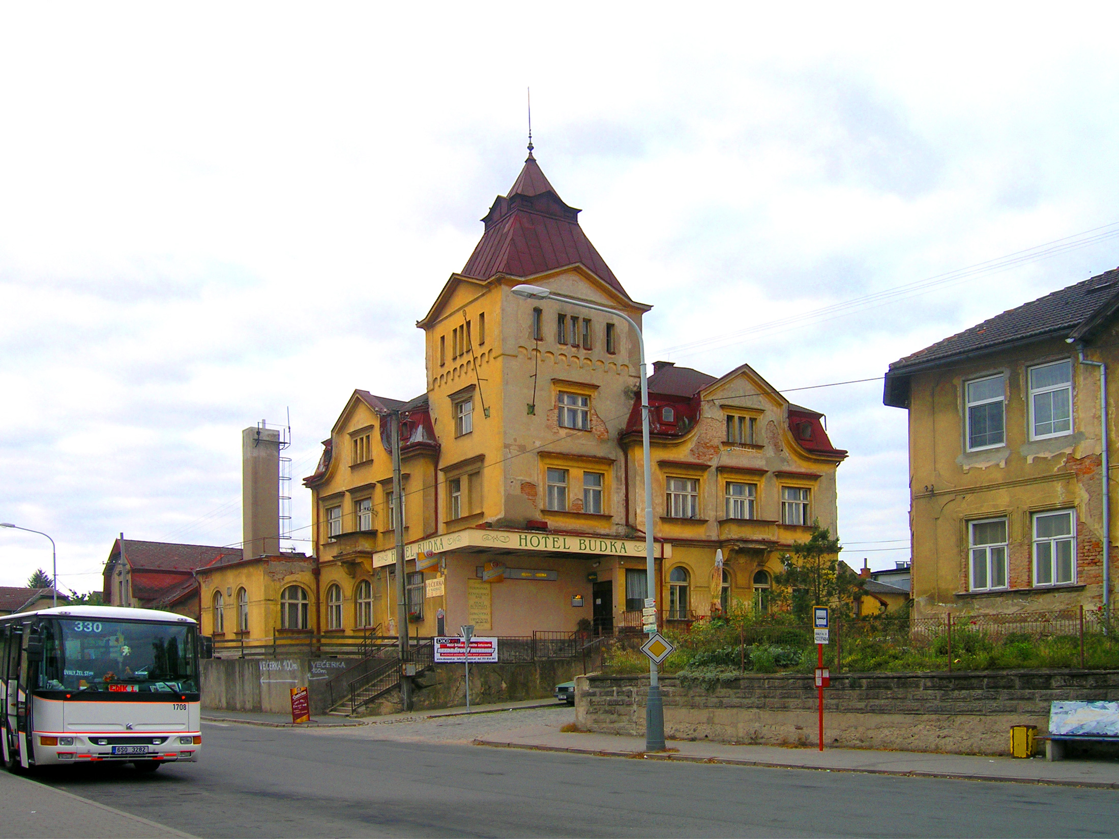 Budka Hotel in Úvaly, Czech Republic